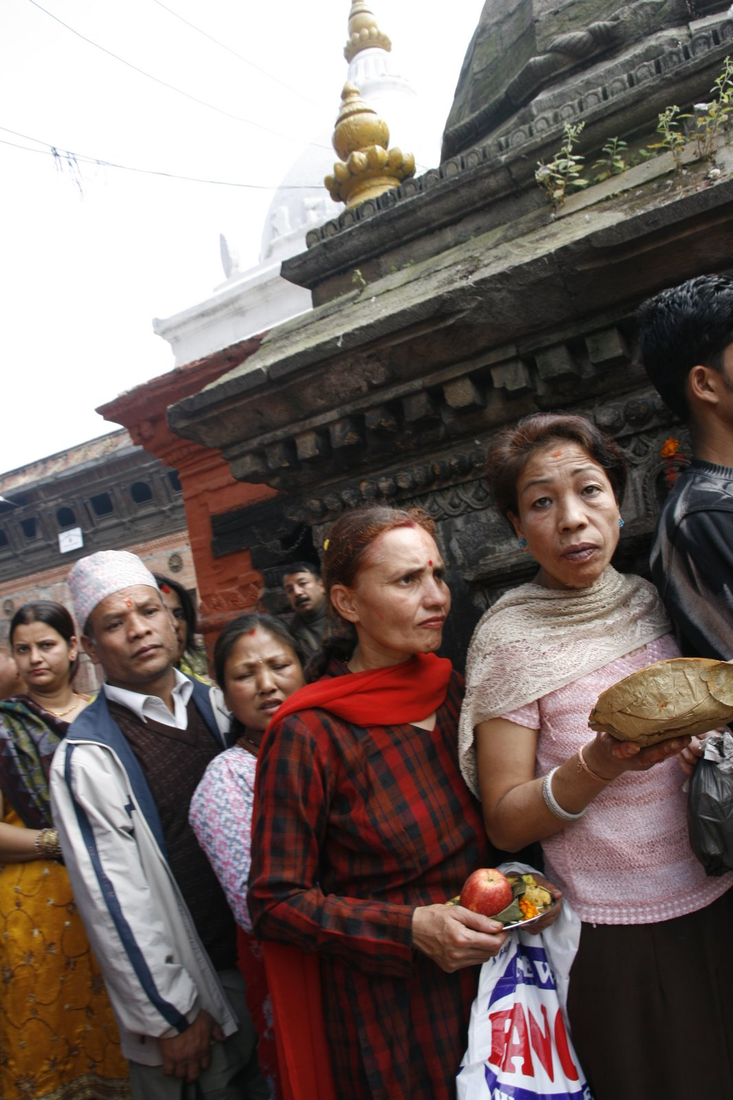 Line of people waiting for sacrifice